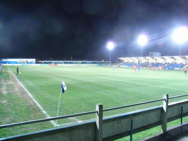 The Remax StadiumWith the recently opened 750 seater Gerald McCreesh Stand along the right-hand touchline.